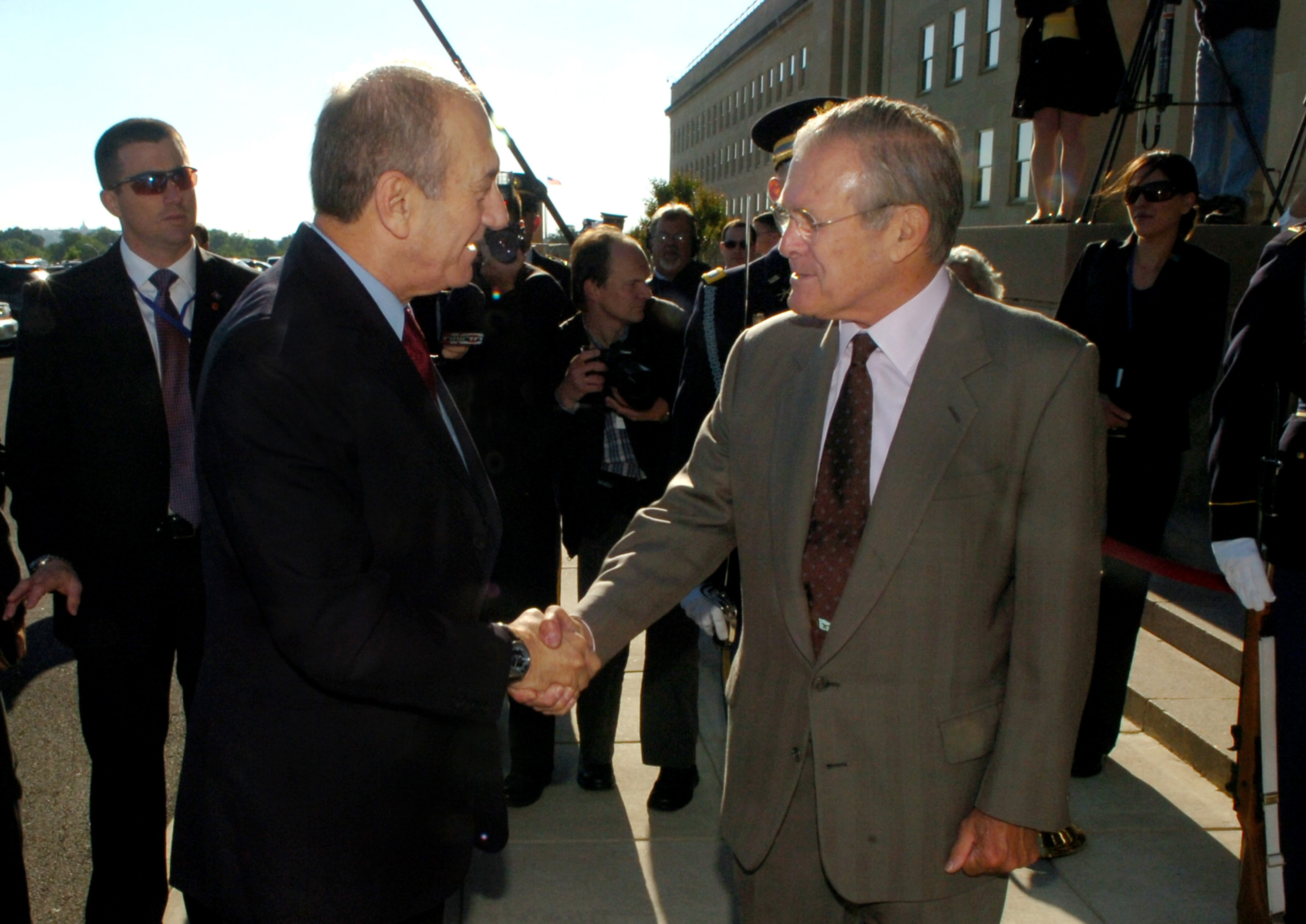 Secretary of Defense Donald H. Rumsfeld welcomes Prime Minister of Israel Ehud Olmert to the Pentagon May 23, 2006. Olmert is in the U.S. for two days to meet with President George W. Bush and other top government officials as well as address a joint meeting of both chambers of Congress.